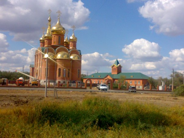 Saint Nicolas Cathedral in Aktobe